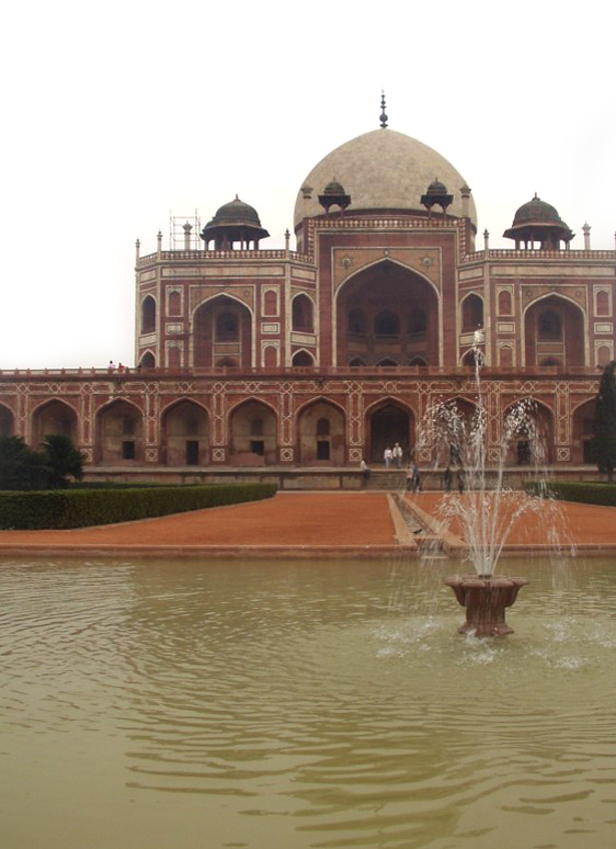 Tombe Moghole